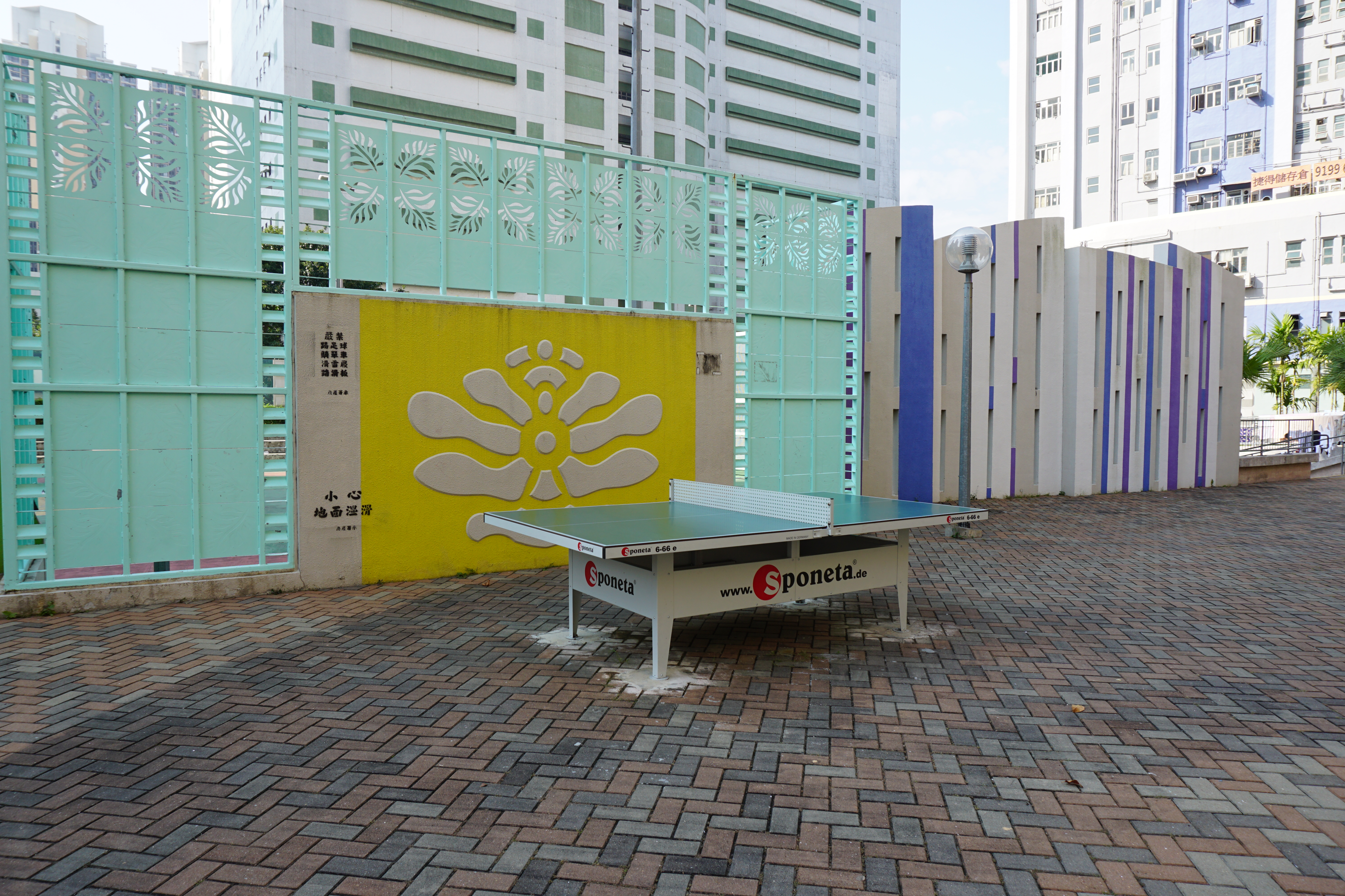 Kwai Chung Estate in Kwai Tsing District, Hong Kong.